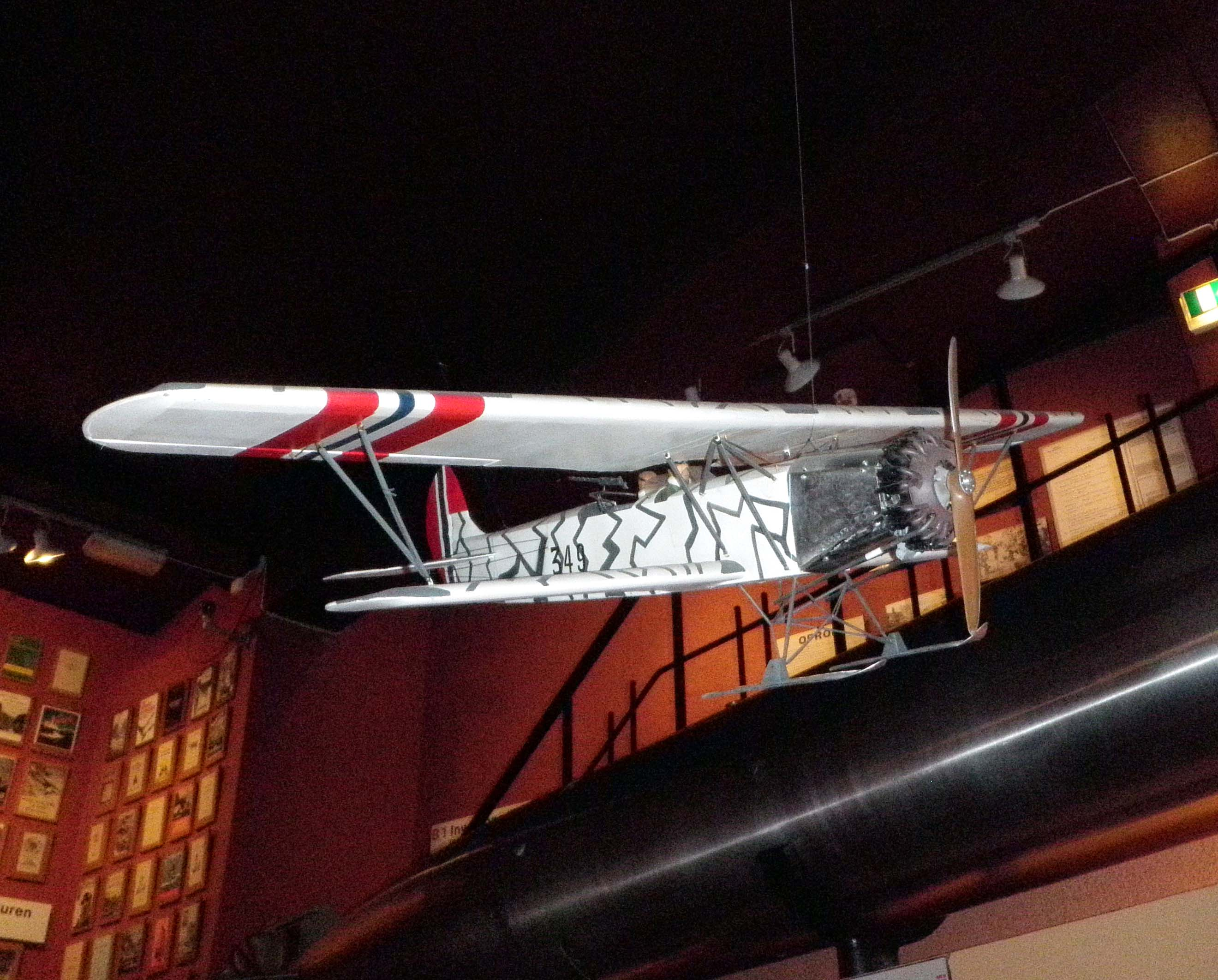 A model of a Norwegian Army Air Service Fokker C.V suspended from the roof of the War Museum in Narvik.